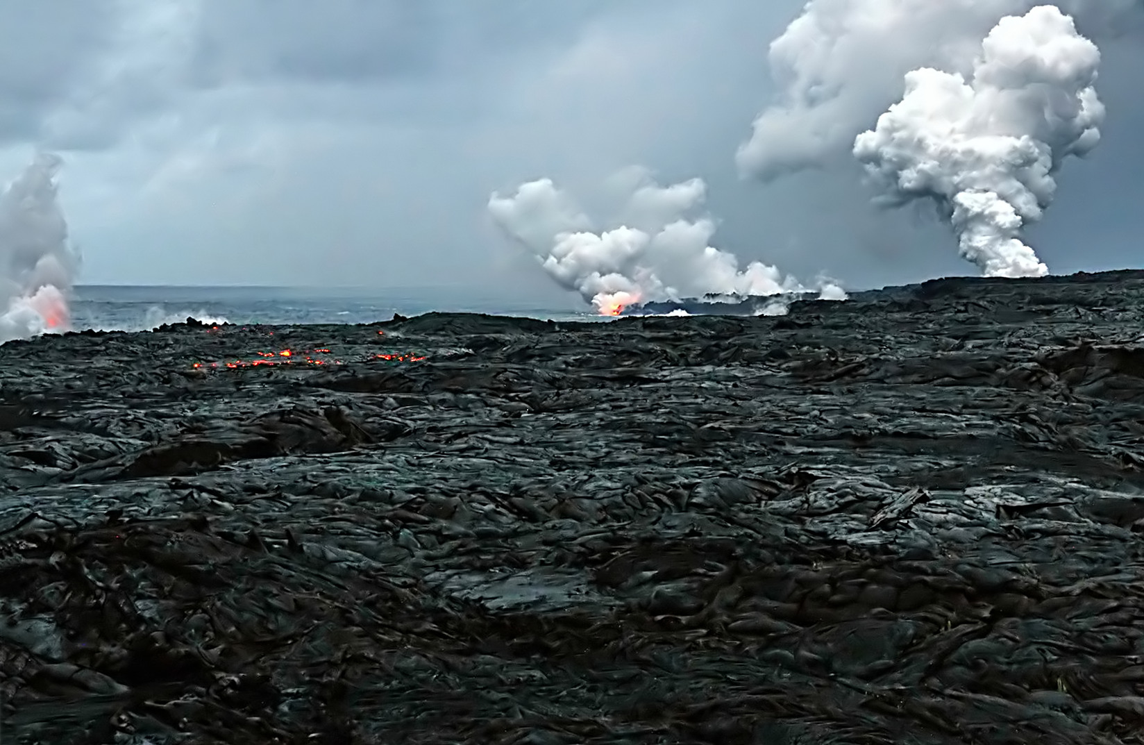 Three Waikupanaha and one Ki lava ocean entries as well as surface lava flow are seen at the image. You could see red lava entering the ocean at the first Waikupanaha ocean entry and a glow at Ki ocean entry. At Hawaii the lava usually moves inside lava tubes. The surface flow is rare. The meeting of lava and the ocean is so violent that one could often see steam explosions, which spray fragments of hot lava into the air. The image was taken at The Big Island of Hawaii.